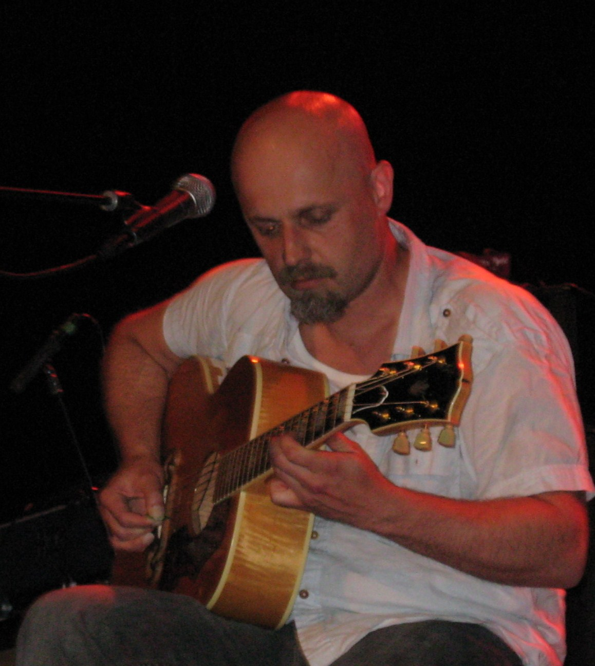 Gert Bettens, former K's Choice member (on stage with his band Woodface)